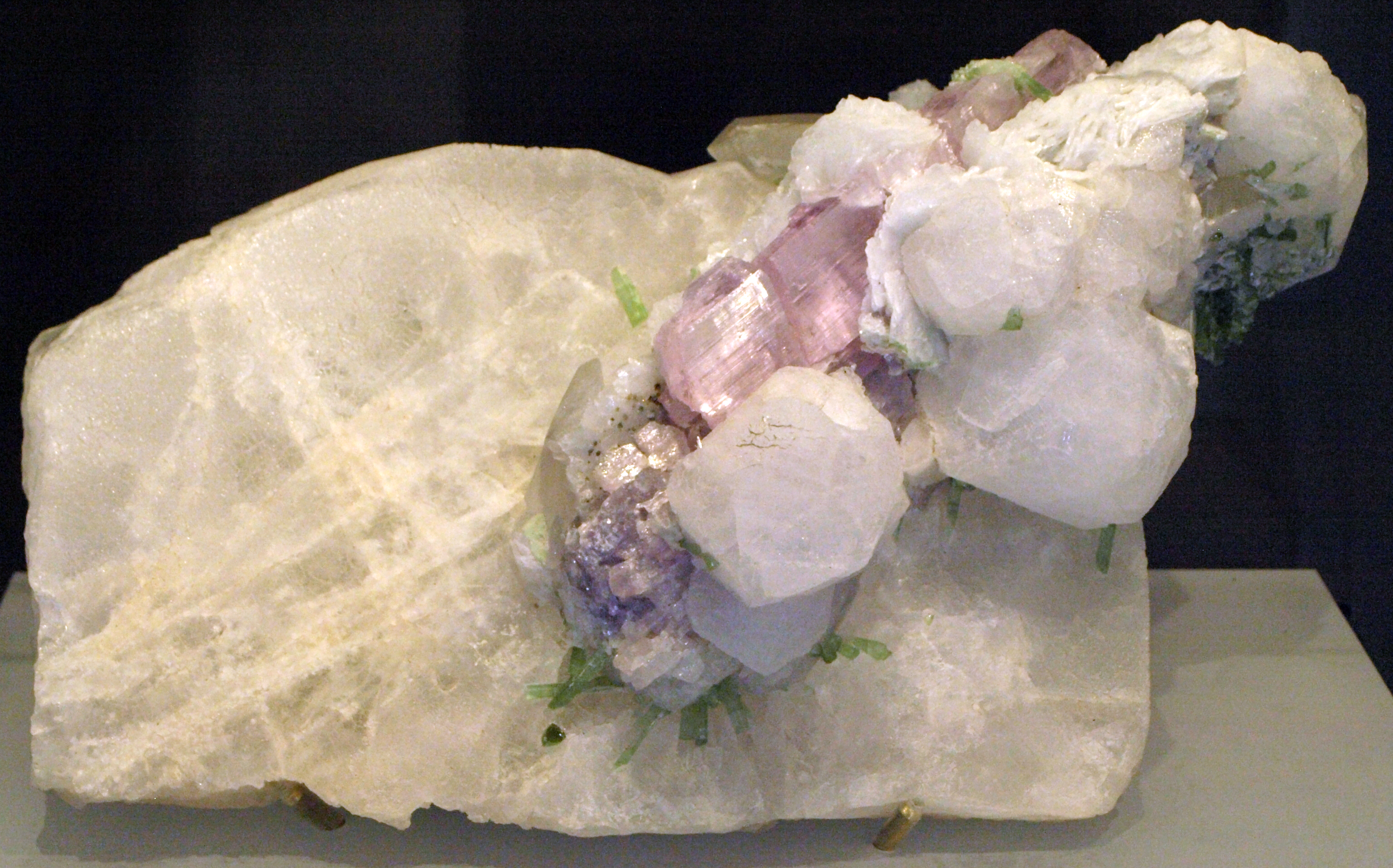 An example of the mineral Pollucite on display in the Vale Inco Limited Gallery of Minerals at the Royal Ontario Museum.